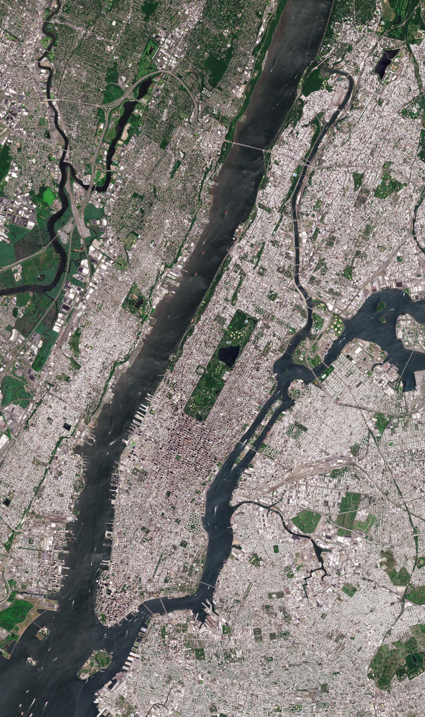 Date: 2018-07-07 Sensor: MSI on Sentinel-2A Resolution: 10m RGB Composites: True color, Band 4-3-2